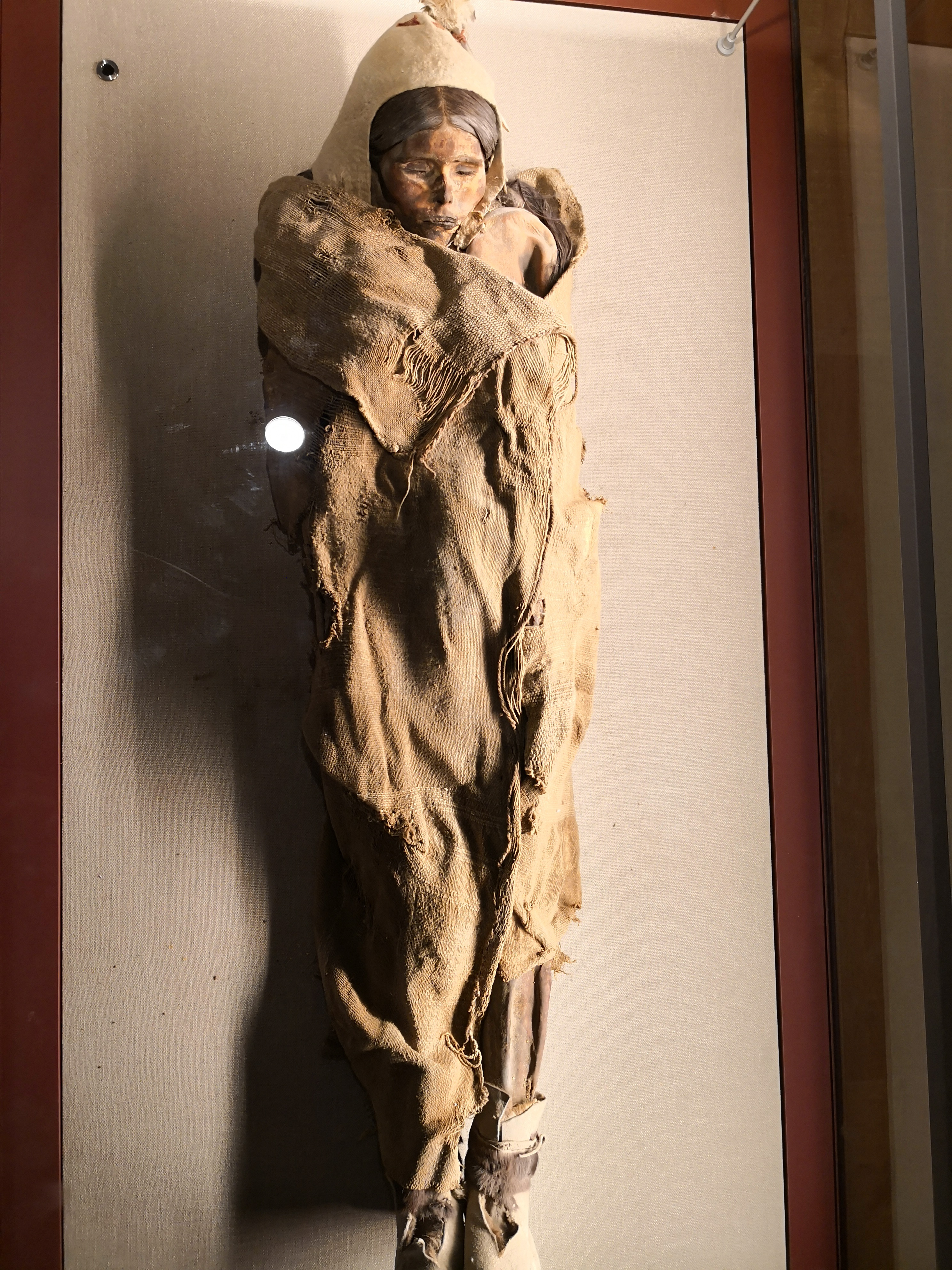 Loural Beauty from Xinjiang Region Museum